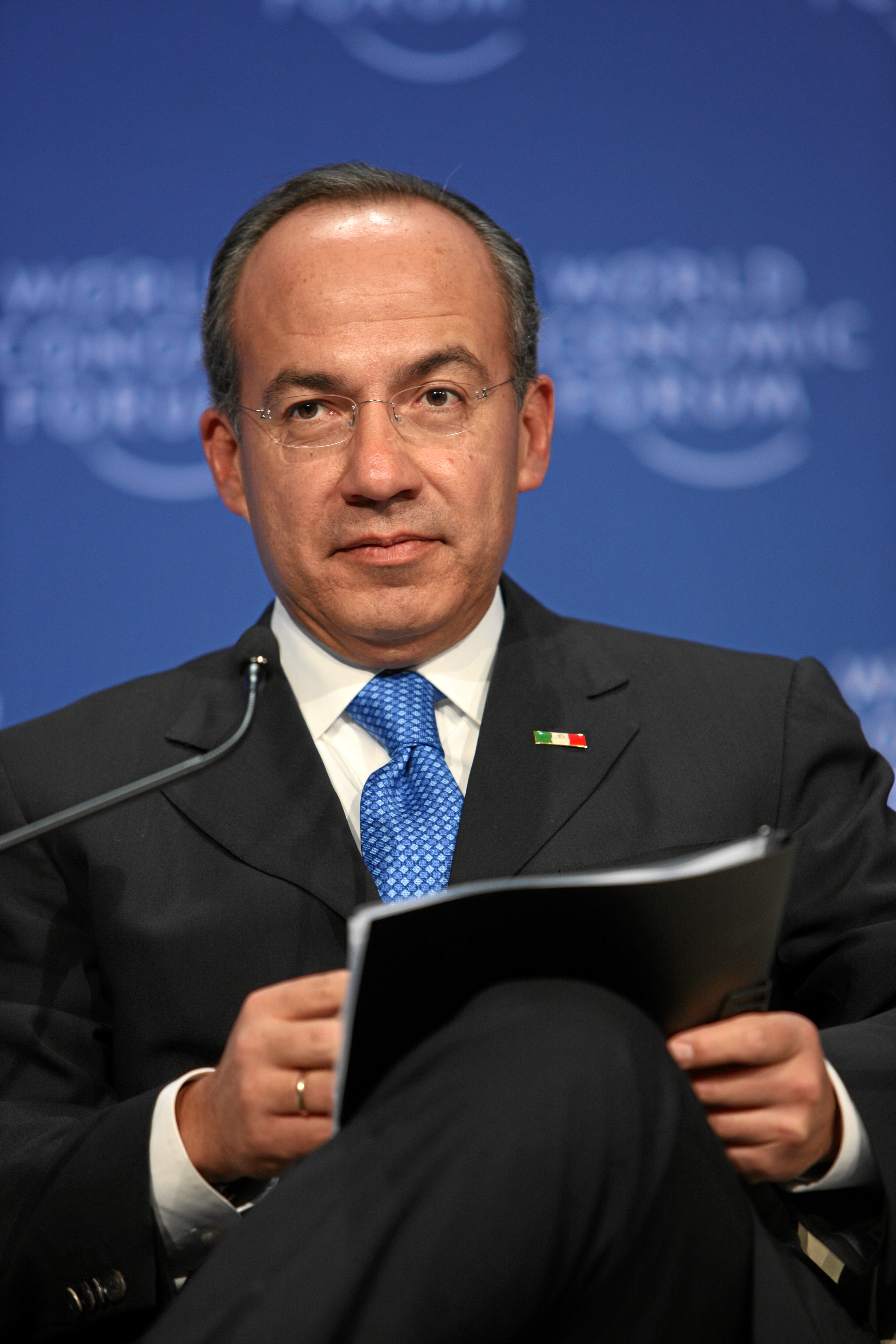 Felipe Calderón, President, talked at the World Economic Forum Annual Meeting in Davos Municipality, Graubünden Canton on January 30, 2009.